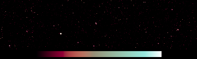 Sky map in the plane of the Milky Way at 151MHz radio for galactic coordinates in the range: 140° to 180° galactic longitude -5° to 5° galactic latitude Generated by Bob Tubbs from raw catalogue data for the 7C survey.